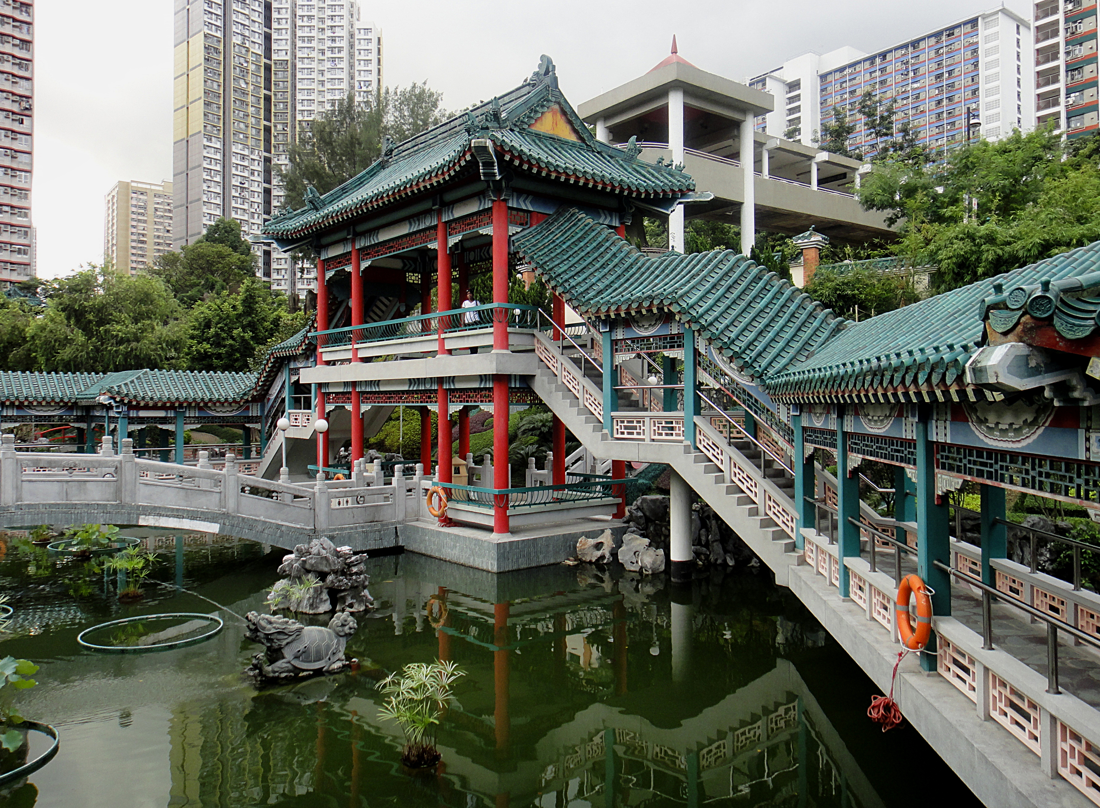 A view of walkway and pool in the Wong Tai Sin temple.